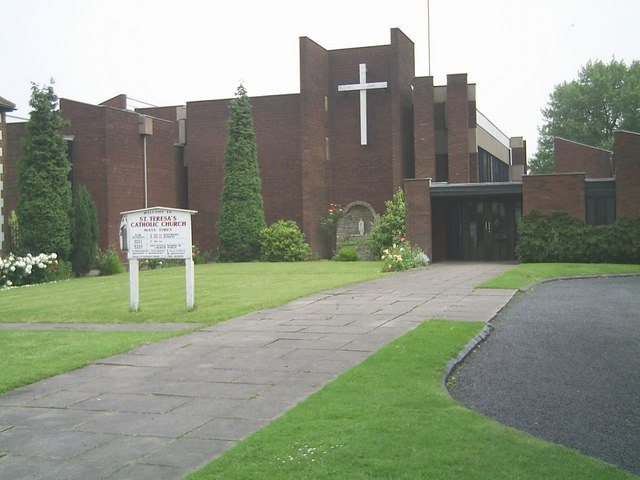 St Teresa's Church This Roman Catholic Church stands on the Birmingham New Road at Parkfield.